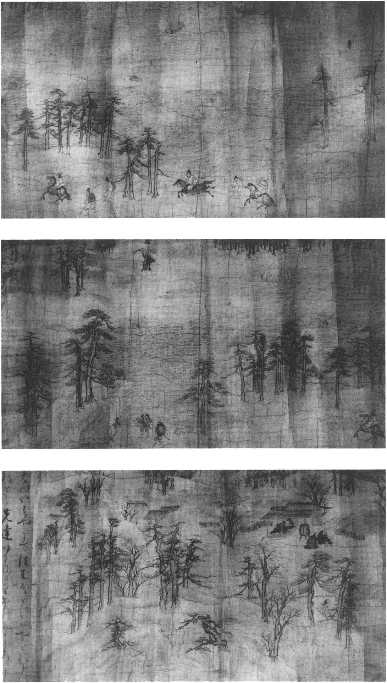 Saigyo Monogatari Emaki - Tsunetaka - Saigyo travelling toward Kumano. Black and white scan.